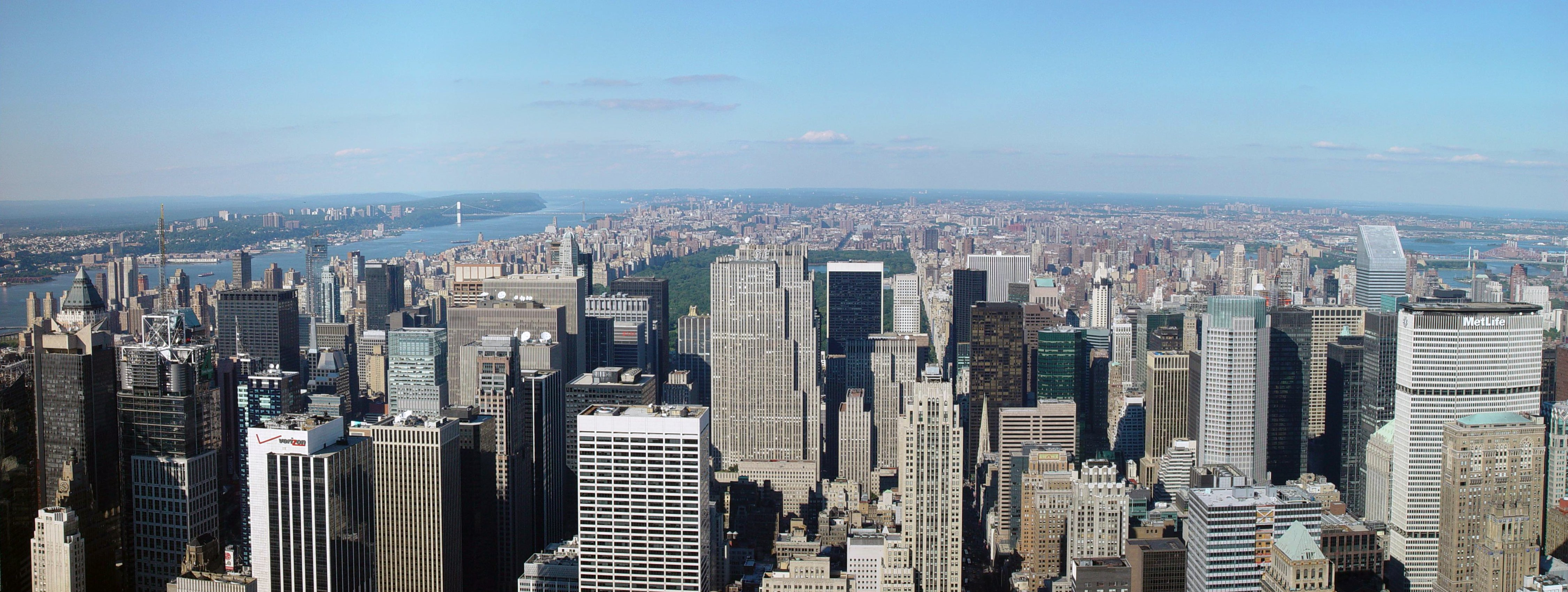 Manhattan - Aerial view looking north.